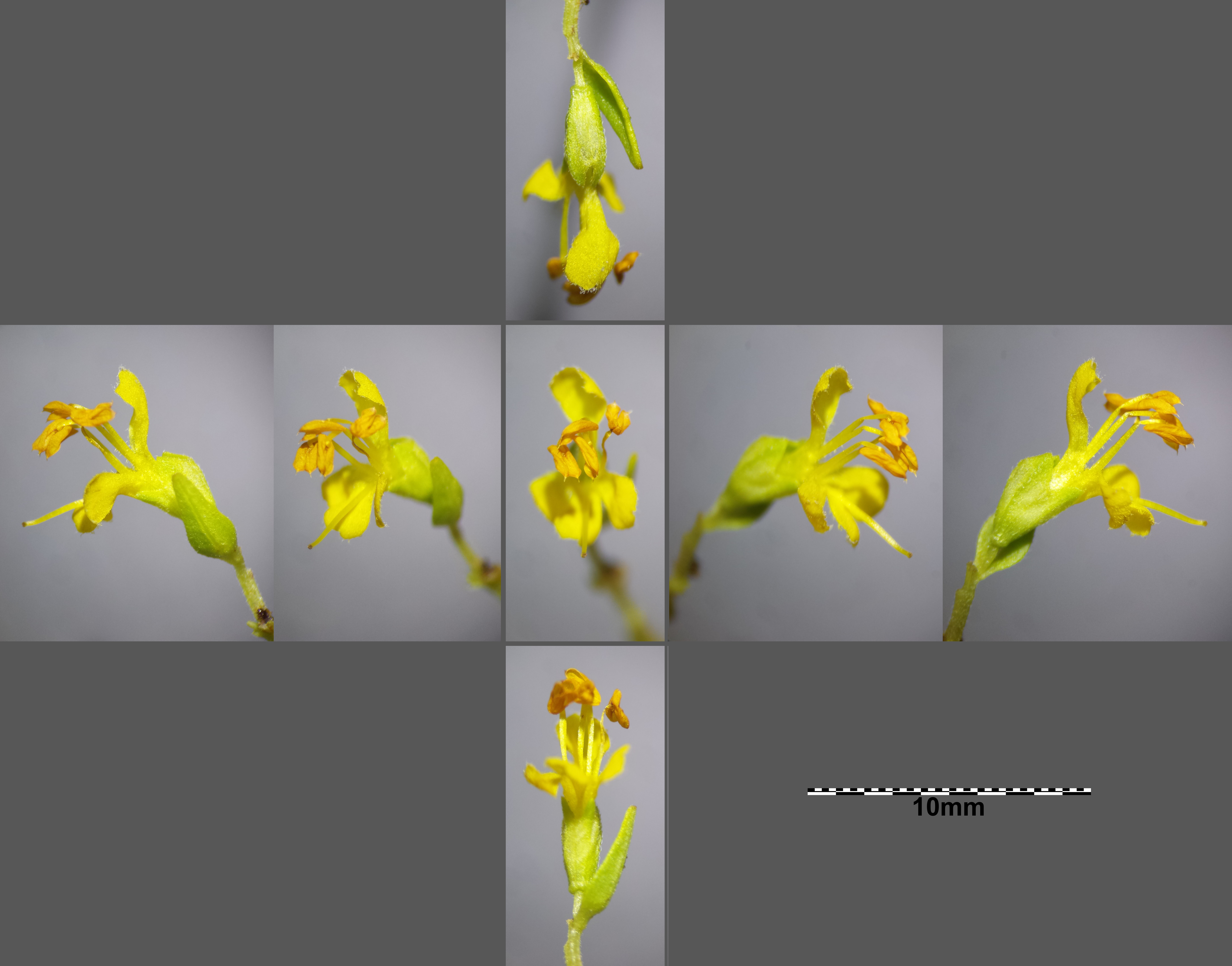 Flower Taxonym: Odontites luteus ss Fischer et al. EfÖLS 2008 ISBN 978-3-85474-187-9 Location: Loess hill to the west of Großebersdorf, district Mistelbach, Lower Austria - ca. 200 m a.s.l. Habitat: semi-dry grassland